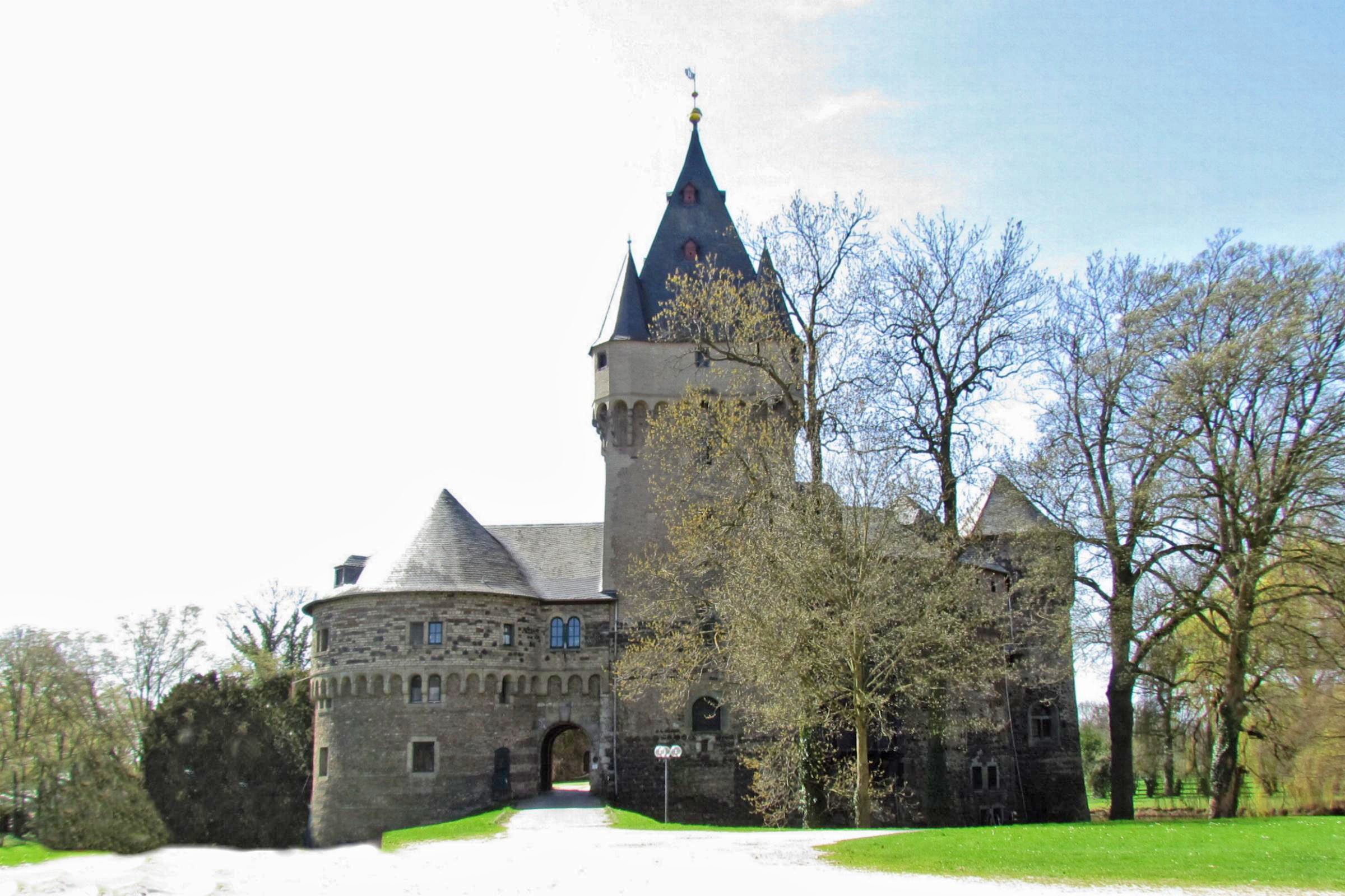 This is a photograph of an architectural monument.